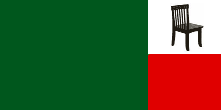 Uttarakhand Kranti Dal, 2007